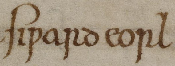 The name of Siward, Earl of Northumbria (died 1055) as it appears on folio 161v of British Library Cotton MS Tiberius B I (the "C" version of the Anglo-Saxon Chronicle): "Siward eorl".